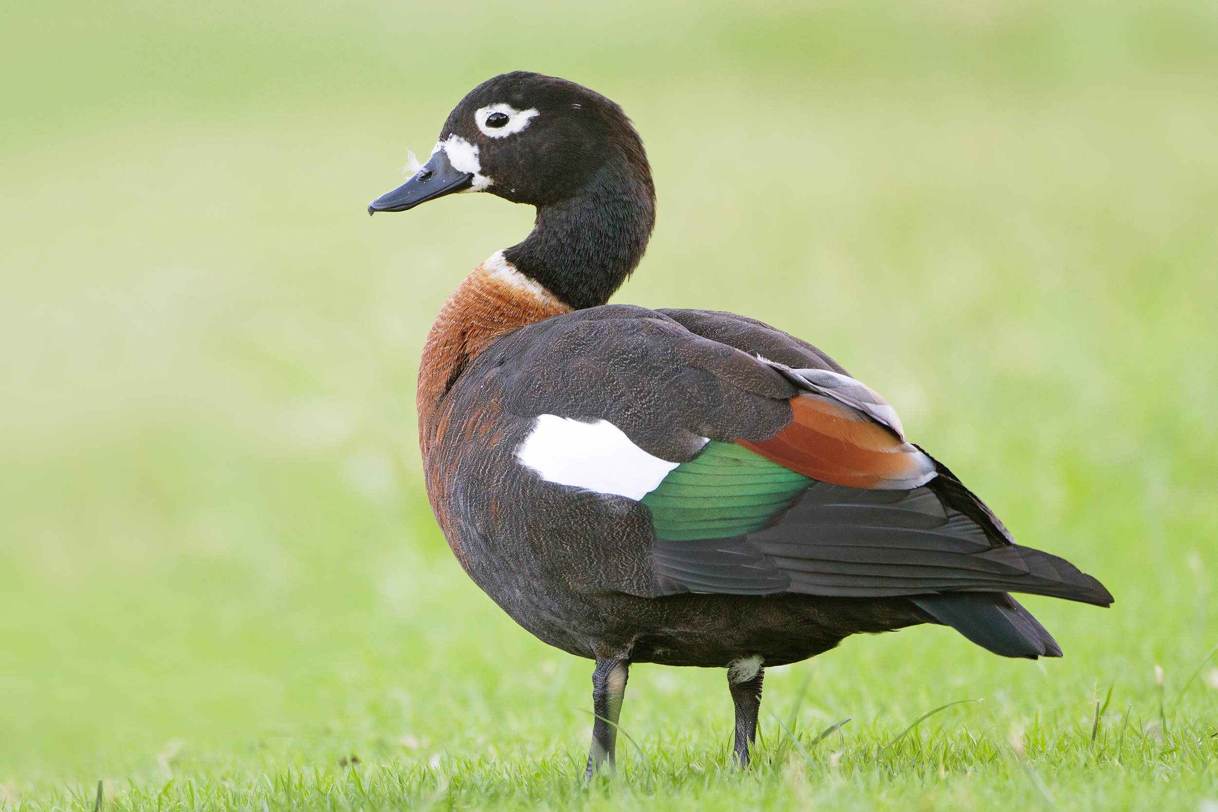 Australian Shelduck (Tadorna tadornoides) female, Perth, Western Australia, Australia